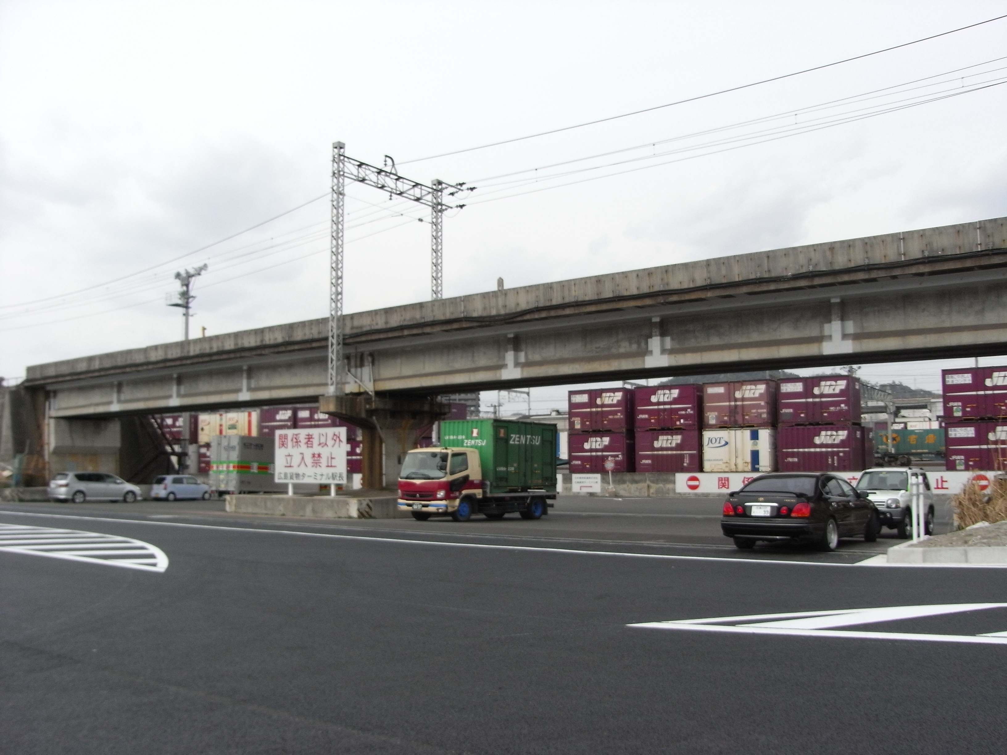 Hiroshima Freight Terminal entrance